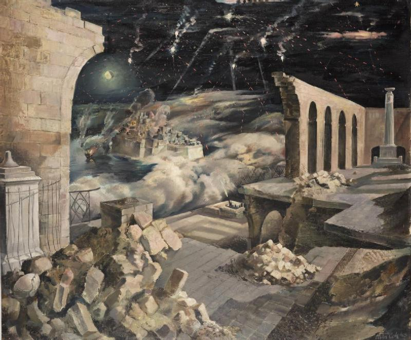 Malta- the Harbour Barrage from the Upper Barracca image: A view from the Upper Barracca over the Grand Harbour of Valletta under aerial bombardment at night. There are piles of rubble in the immediate foreground and a British Anti-Aircraft gun fires skywards from a gun emplacement in the centre of the composition. This emplacement and the smoke-filled Grand Harbour are visible through a large gap in the damaged wall of archways of the Upper Barracca. The night sky is illuminated by the moon, star shells, artillery and anti-aircraft fire.